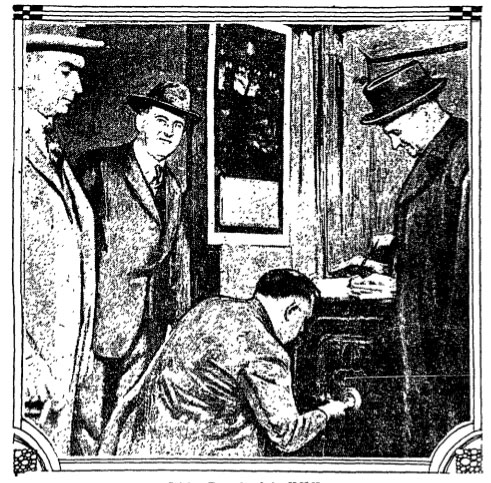 Seizing Records of the K.K.K. / This picture shows the interior of the office of Grand Goblin Coburn of the Los Angeles branch of the Ku Klux Klan during the raid last evening led by Chief Dep. Dist.-Atty. Doran, at right. At left is shown Undersheriff Biscailuz and, beside him, Deputy Sheriff Joe Nolan. Kneeling and in the act of opening the safe containing the organization's records is Secretary C.R. Isham of the Grand Goblin's office force. (Times photo).